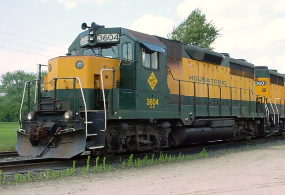 Housatonic Railroad EMD GP35 #3604 at Canaan CT